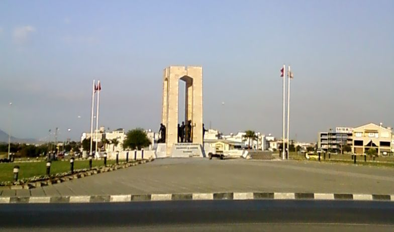 Monument of National Struggle and Liberation in Gönyeli, Northern Cyprus.